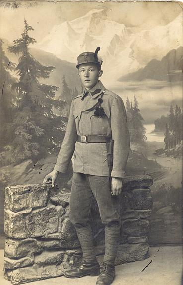 Soldier Josef Procházka 2.